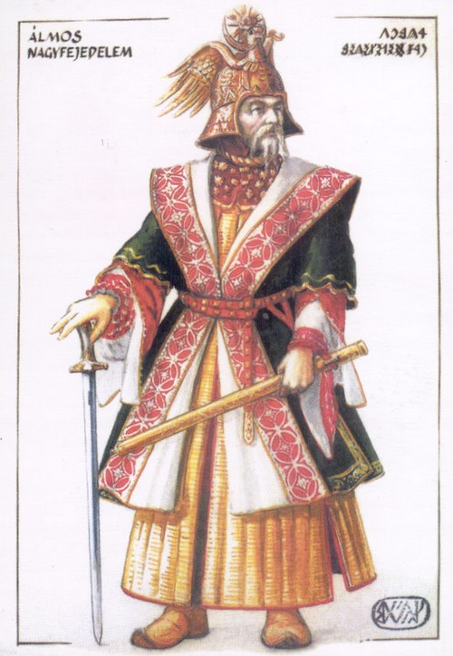 Grand Prince Álmos of Hungary